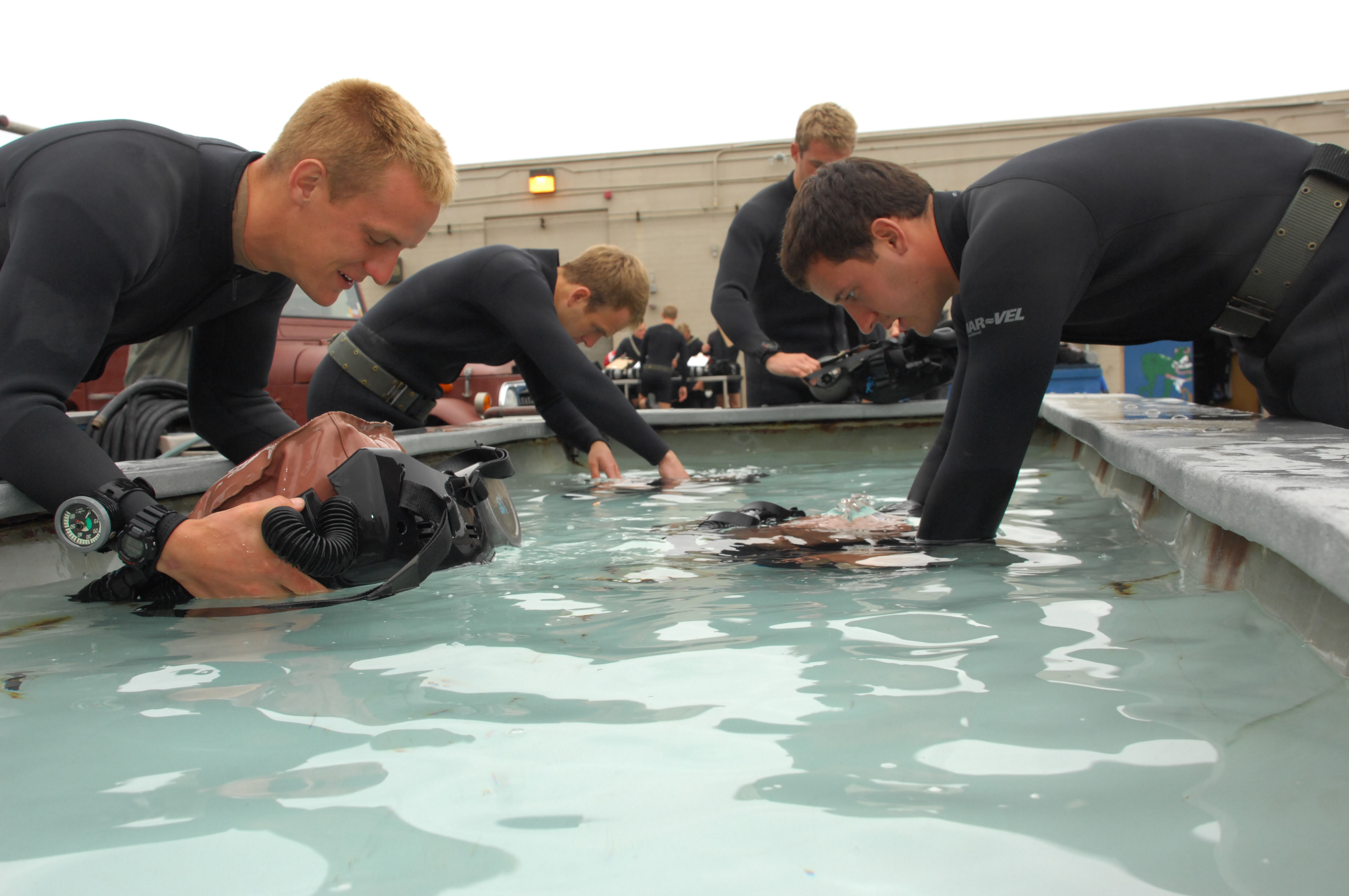 CORONADO, Calif. (April 23, 2009) Basic Underwater Demolition SEAL (BUD/S) candidates check their underwater breathing apparatuses for proper ventilation and safety before participating in dive training in Coronado Bay. Diving is an eight-week course during the second phase of training that prepares, develops and qualifies candidates as basic combat swimmers. BUD/S candidates must complete three phases of training and qualify in advanced training during a yearlong program to become Navy SEALs. (U.S. Navy photo by Mass Communication Specialist 2nd Class Shauntae Hinkle-Lymas/Released)